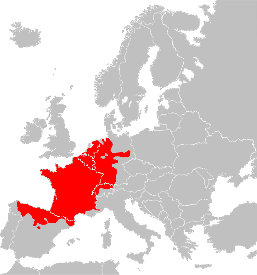 Sorex coronatus range Map.